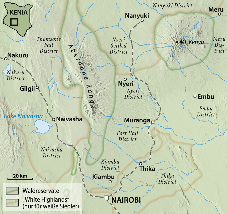 Central Kenya 1952